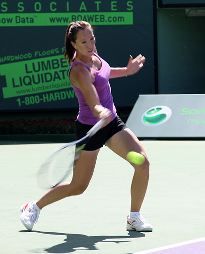 Jankovic hitting a forehand in Miami.